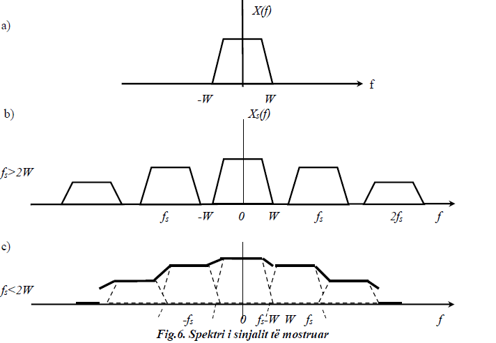 Spektri i sinjalit